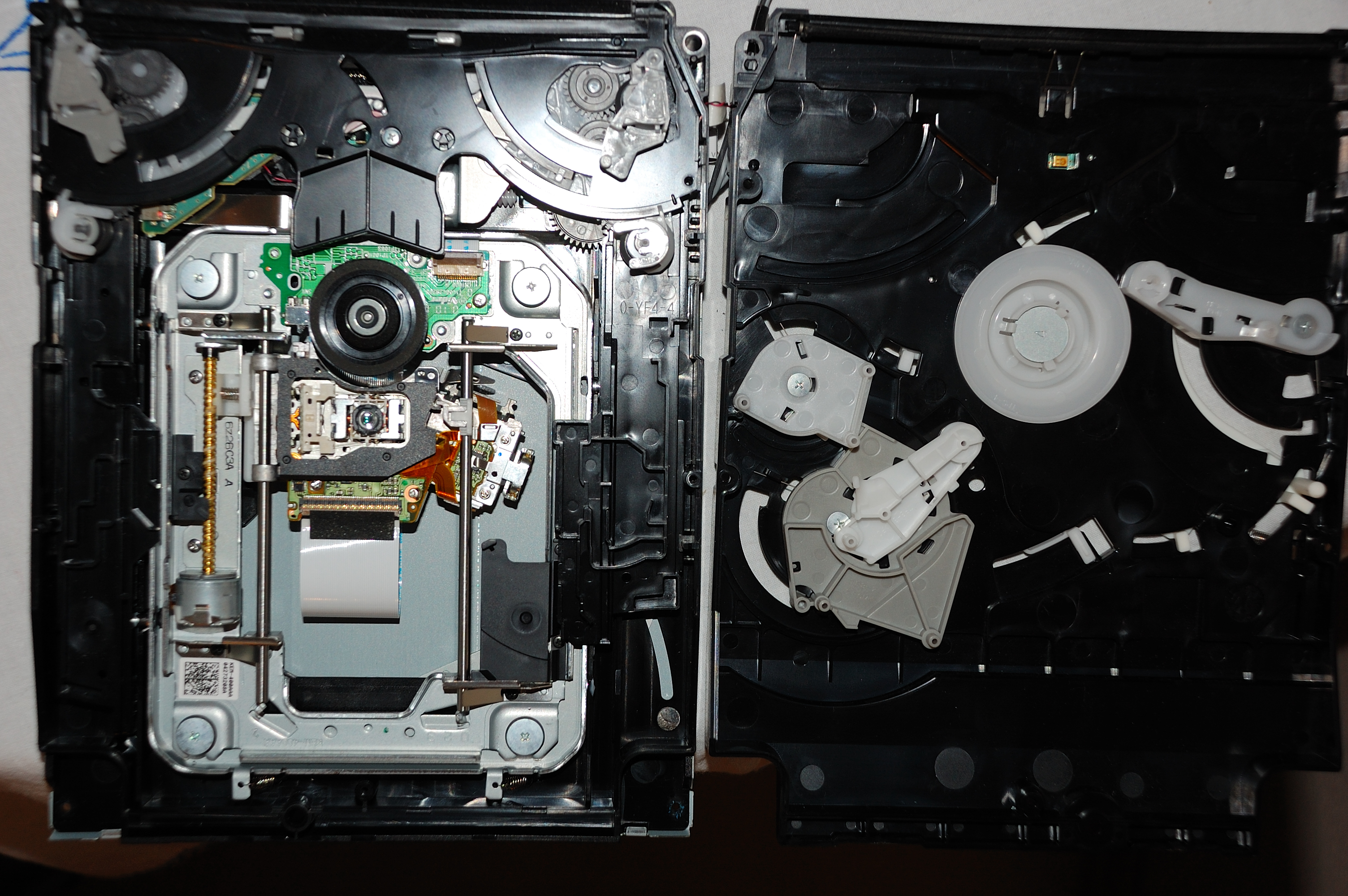 PlayStation 3 Blu-ray Drive